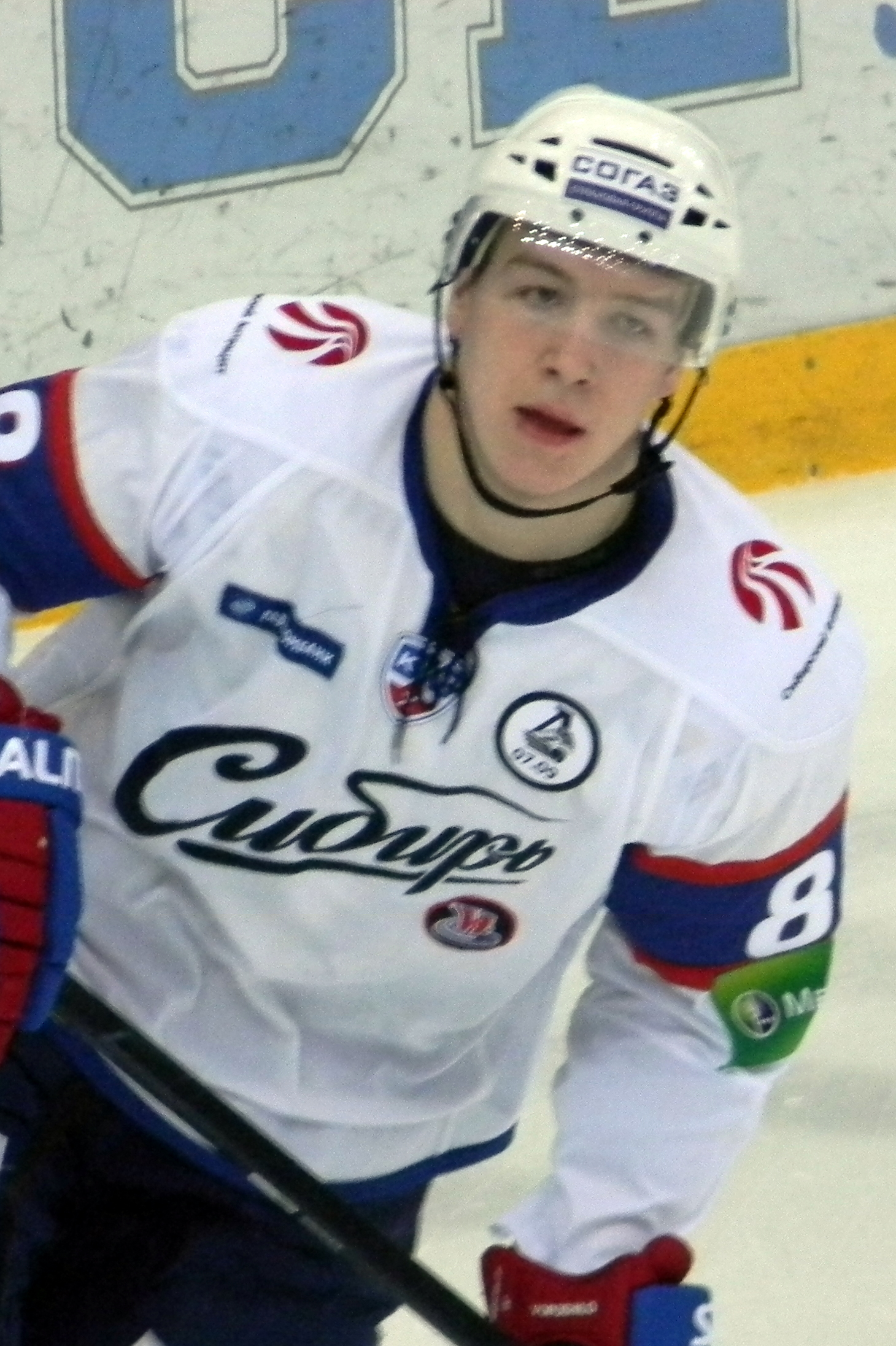 Rafael Batyrshin, an ice-hockey player from HC Sibir Novosibirsk